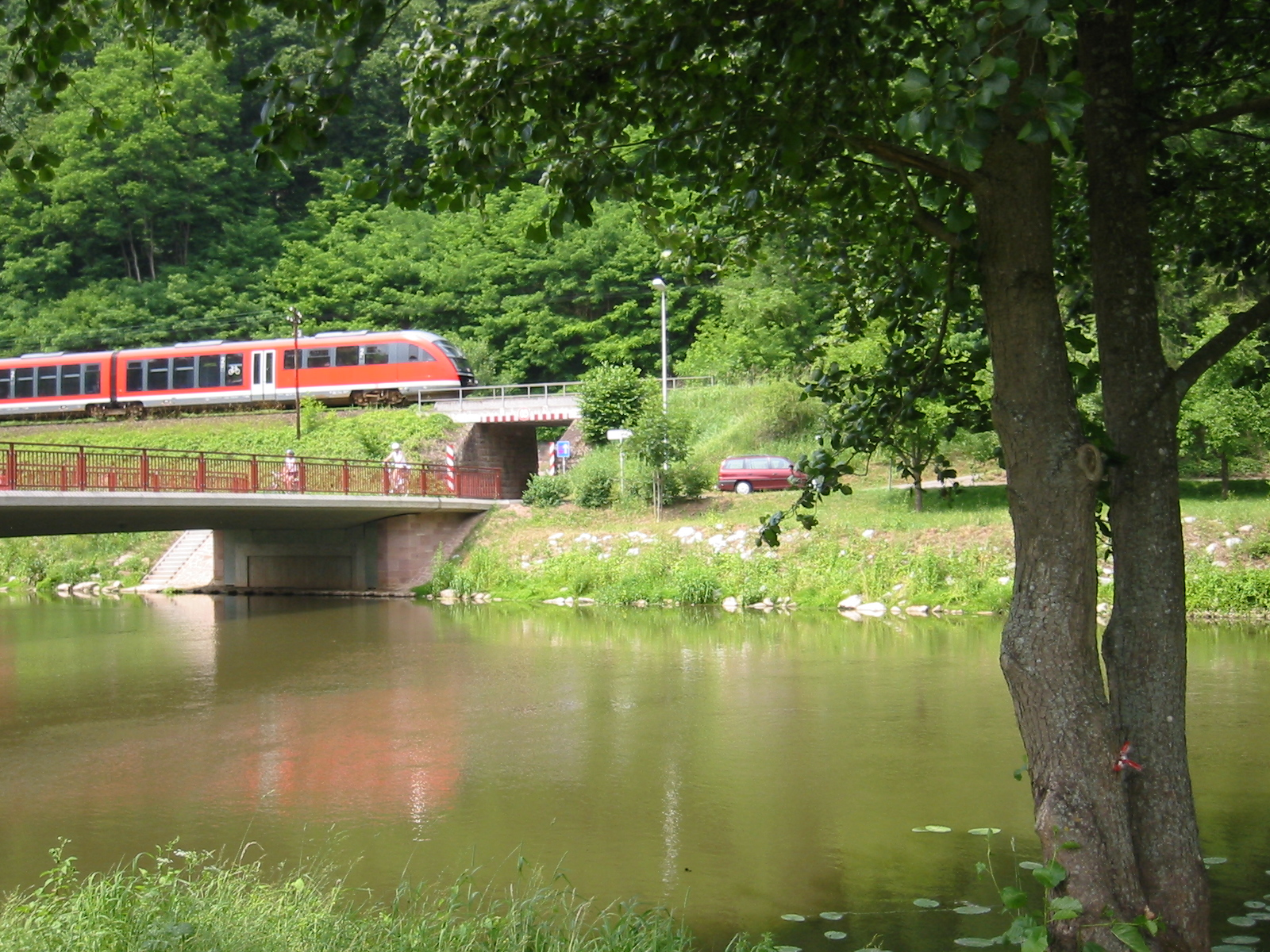 A Class 642 diesel multiple near Michelaubrück on the Saale Valley Railway in Bavaria, Germany